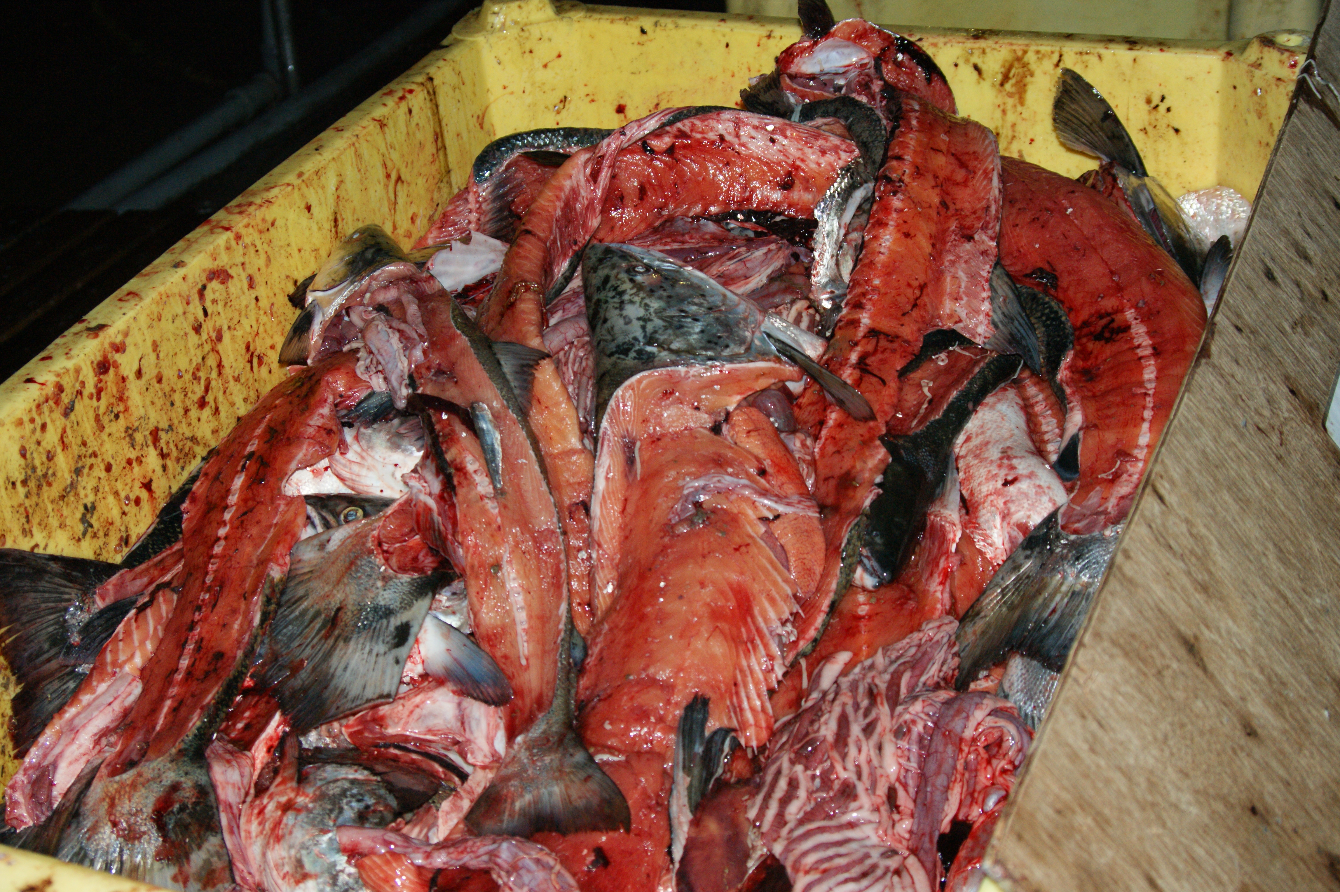 Salmon waste